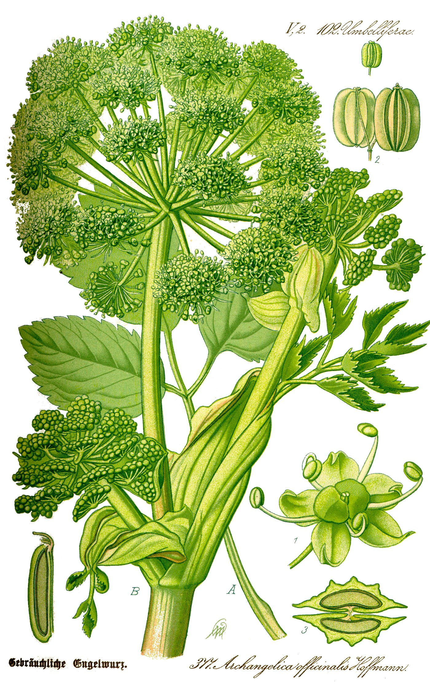 Clean version of Image:Illustration_Angelica_archangelica0.jpg Name Angelica archangelica Family Apiaceae